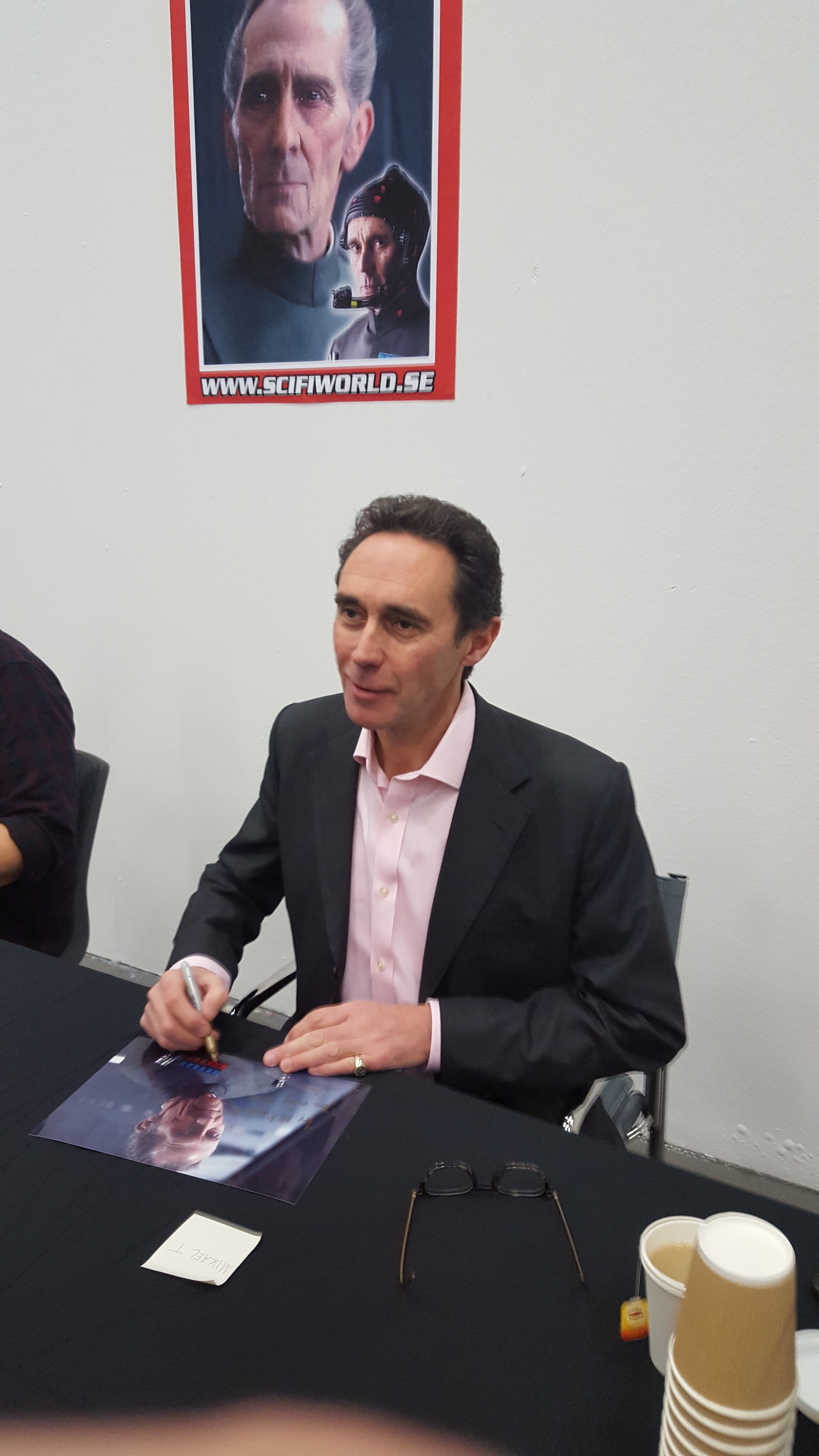 Guy Henry, British actor at Stockholm International Fairs in 2018.